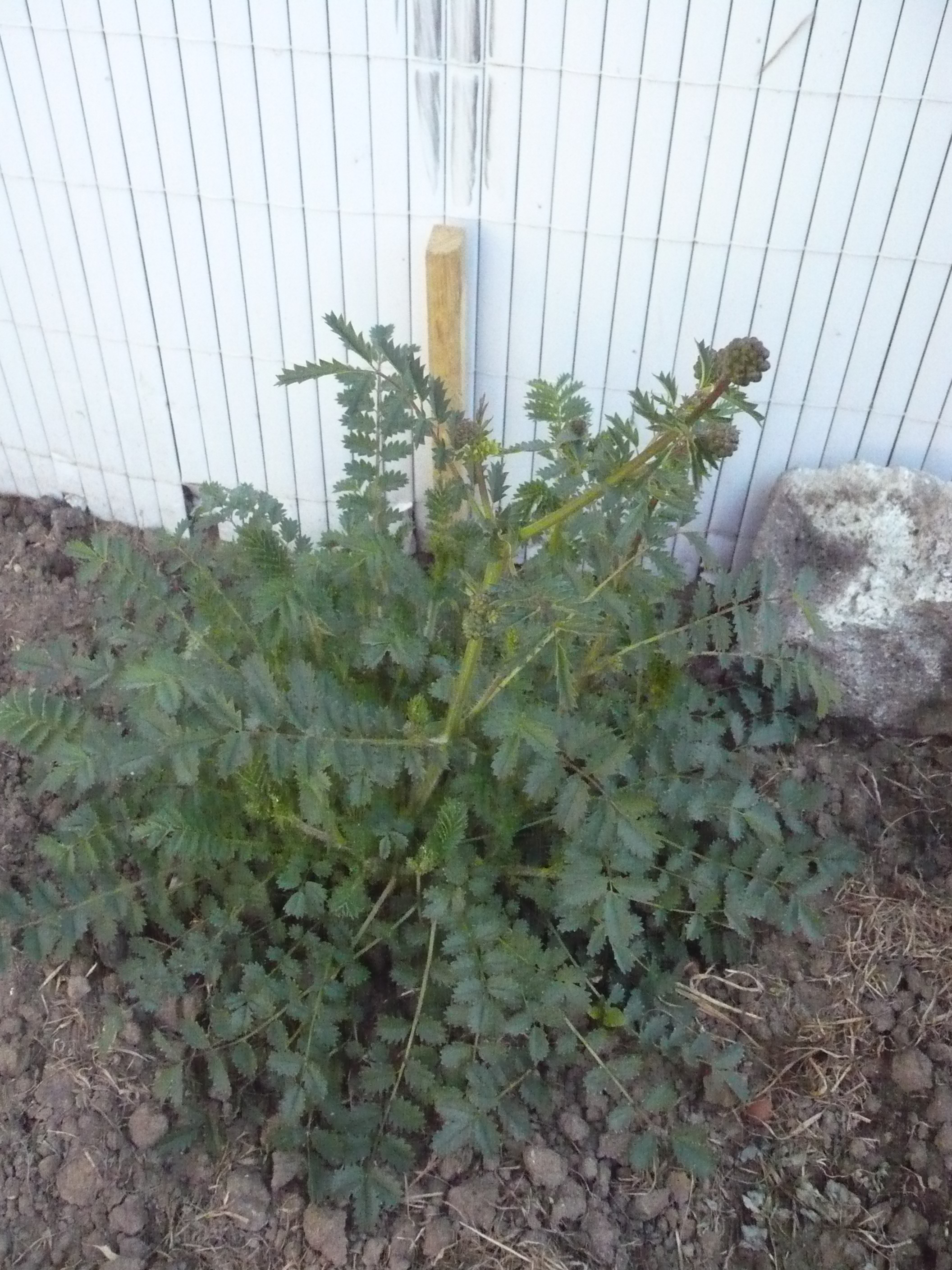 Plant of salad burnet (Sanguisorba minor).